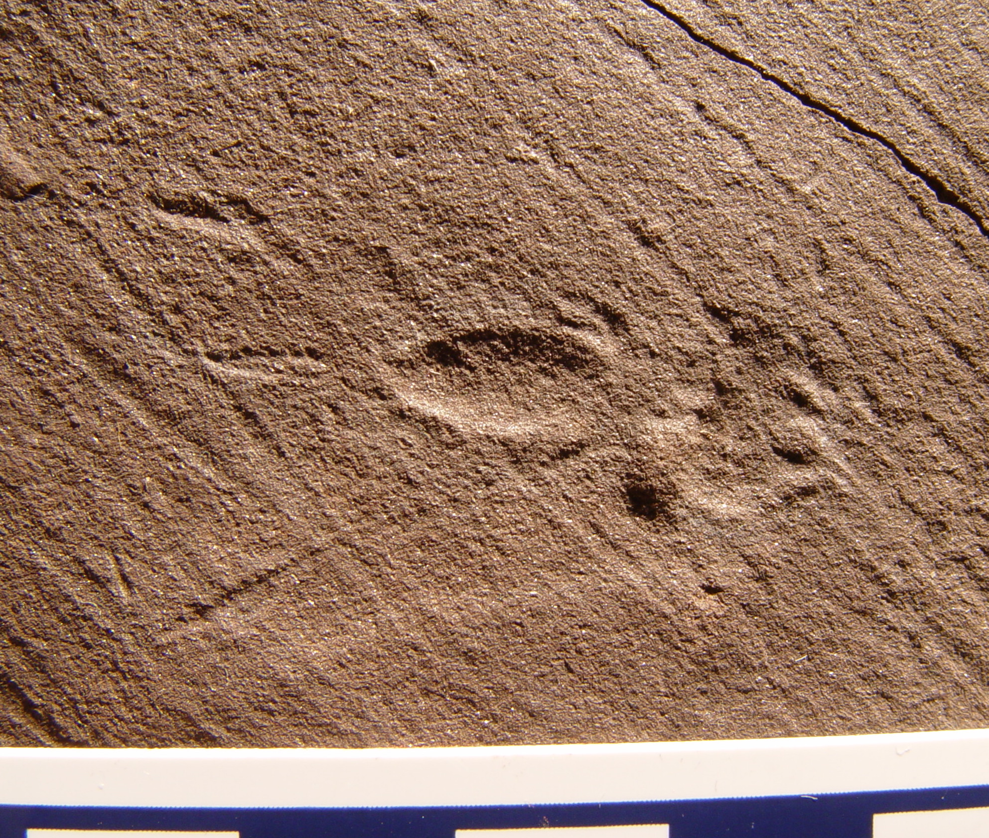 The type specimen of the ichnogenus Cheliceratichnus, from the Early Jurassic East Berlin Formation of Holyoke, Massachusetts.